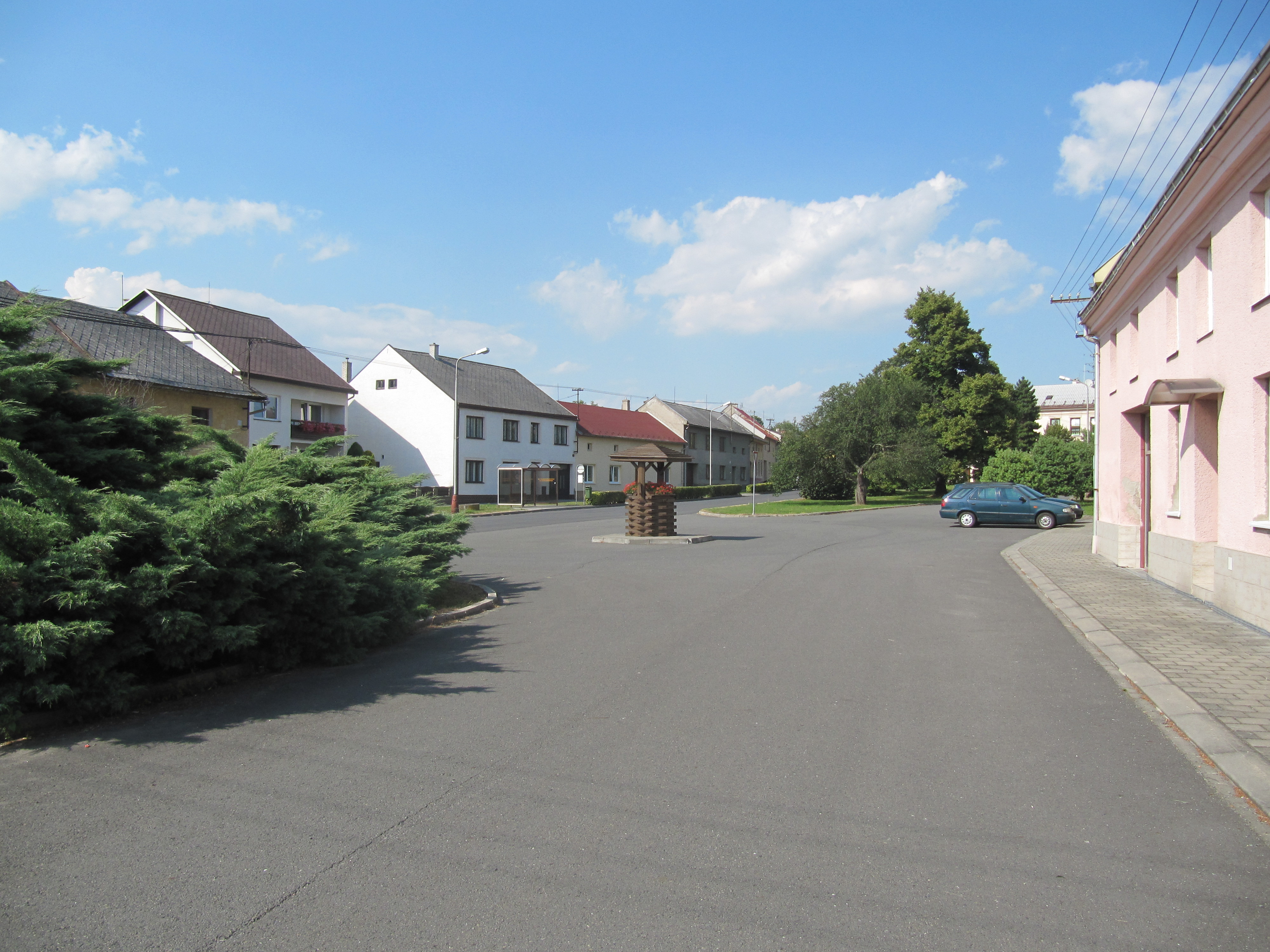 Němčice, Kroměříž District, Czech Republic.